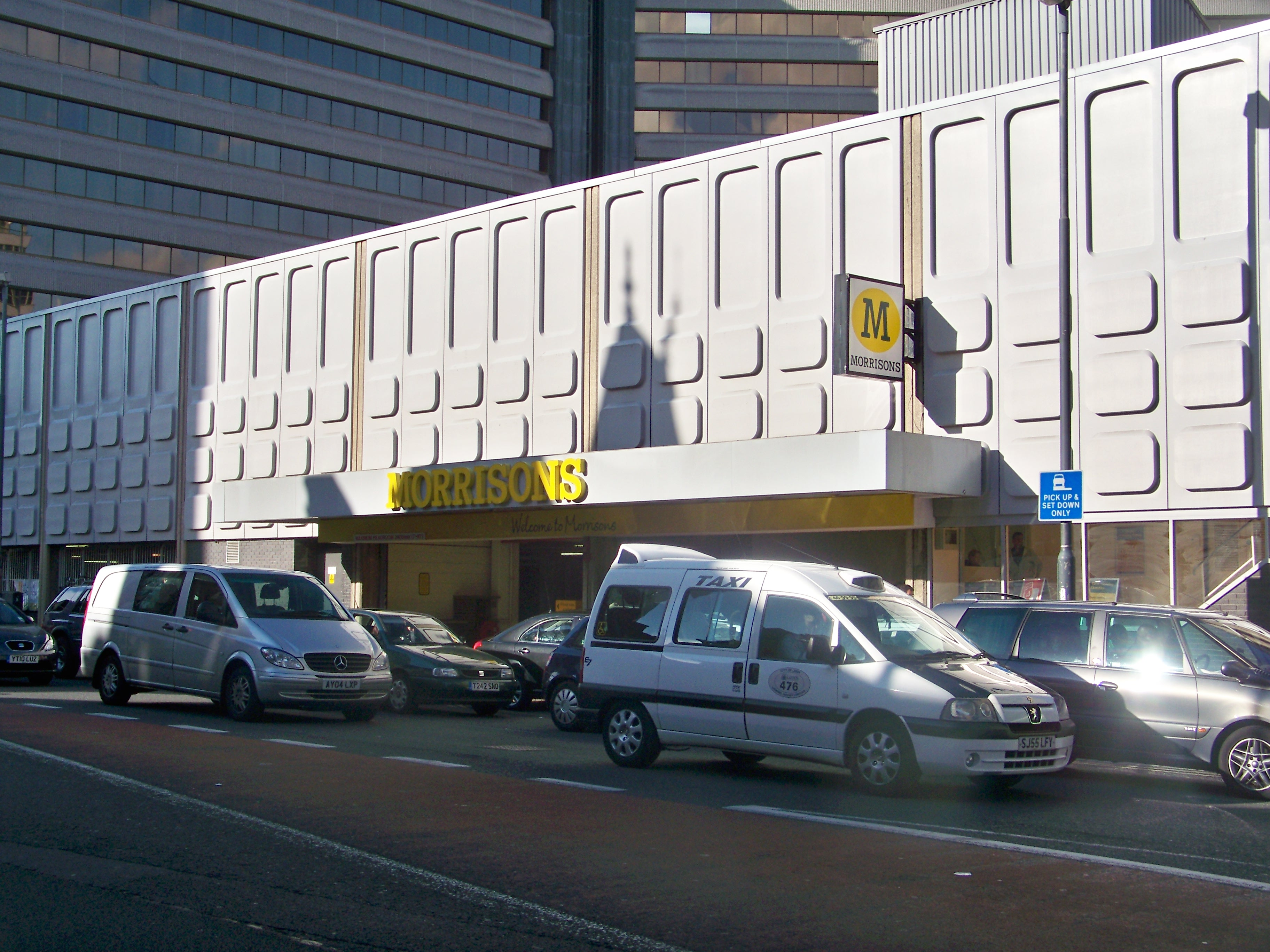 Morrisons at the Merrion Centre as seen from Woodhouse Lane in Leeds, West Yorkshire. Taxis can be seen in front. Taken on the evening of Thursday the 27th of May 2010.